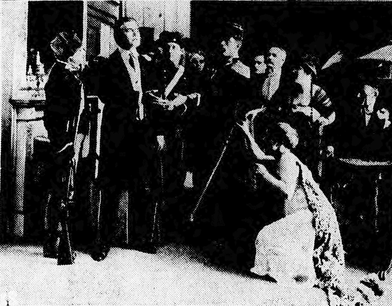 The Man from Home is a 1914 American drama film based on a novel by Booth Tarkington and directed by Cecil B. DeMille. This is a publicity photo that was published in a newspaper.